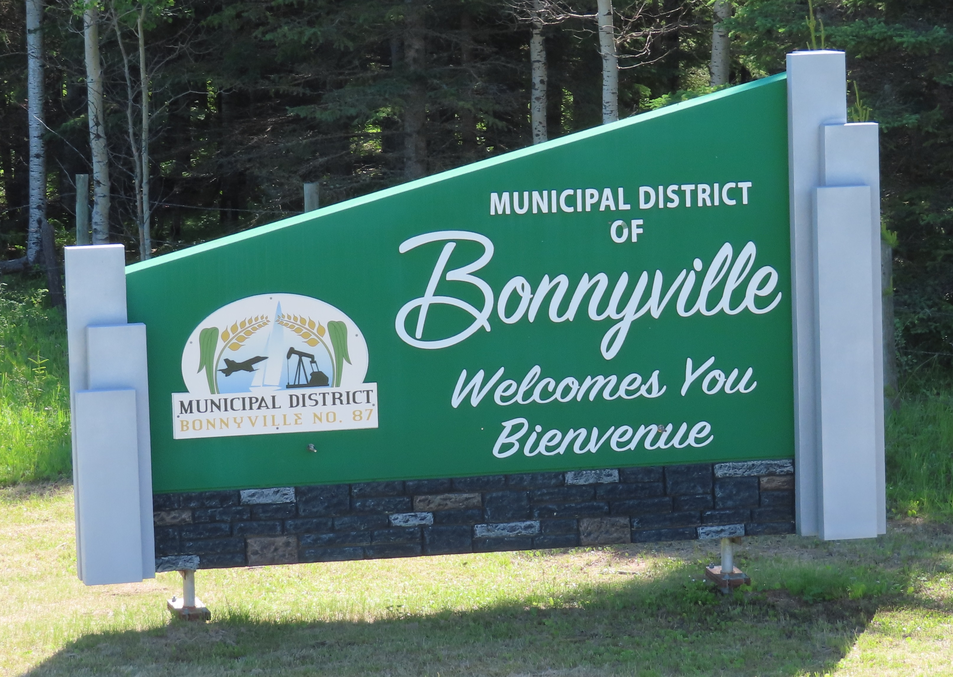 Sign marking the western boundary of the M.D. of Bonnyville, Alberta, Canada.